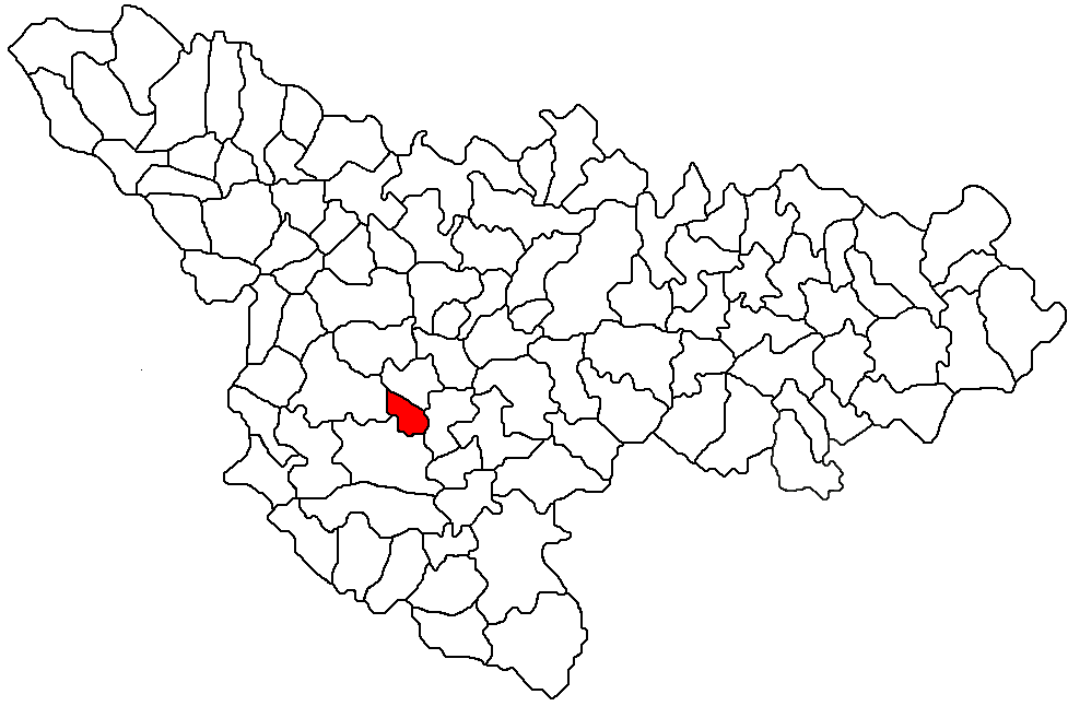 Locator map of the commune of Parta, Timiș County, Rumania